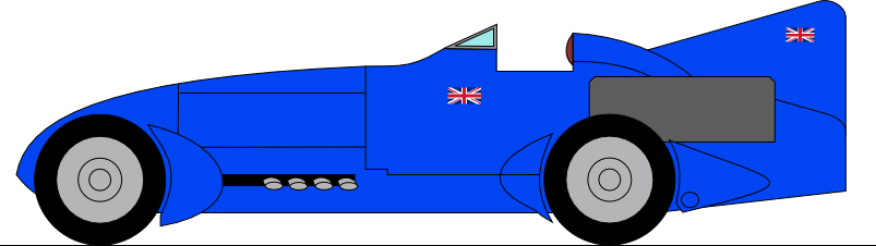 Napier-Campbell Blue Bird (1928)